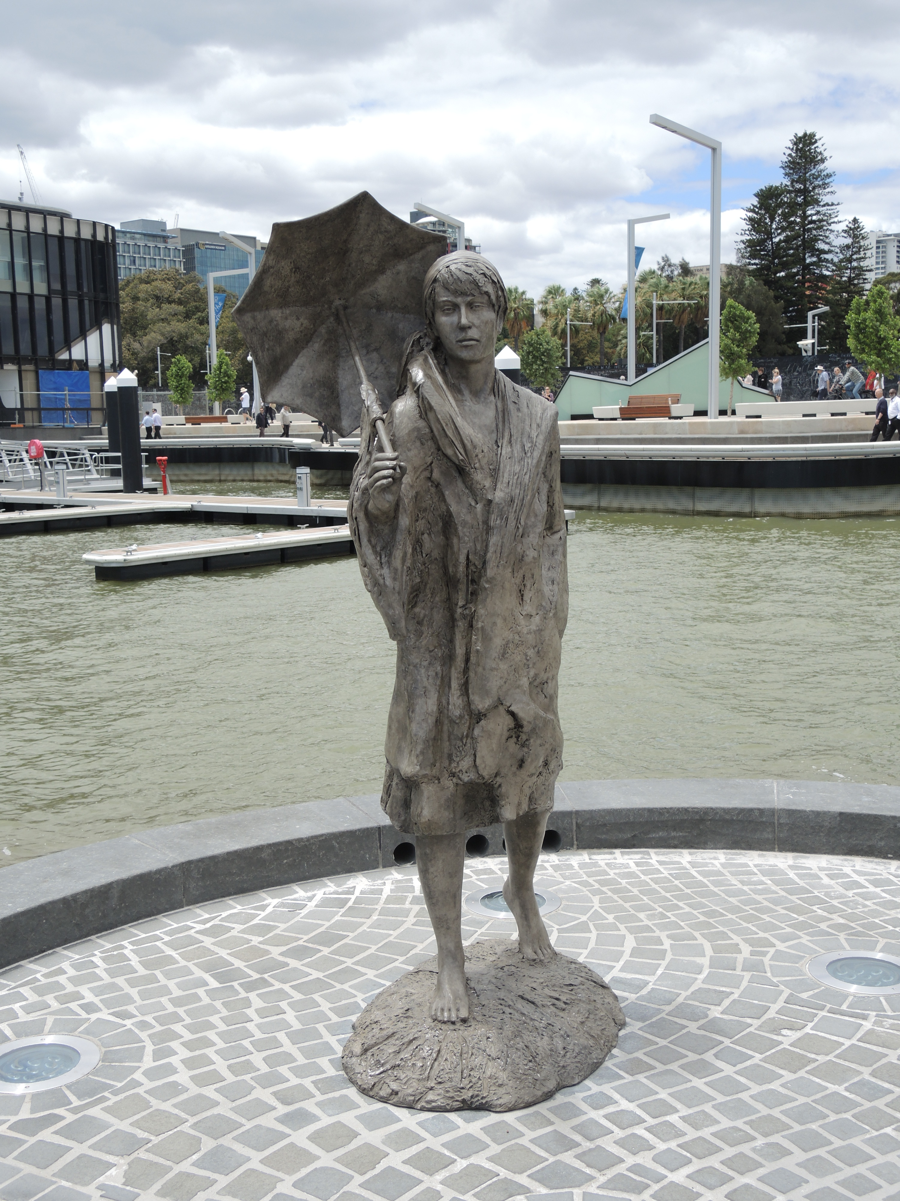 Elizabeth Quay in Perth, Western Australia, 1 February 2016. Public art on the island.